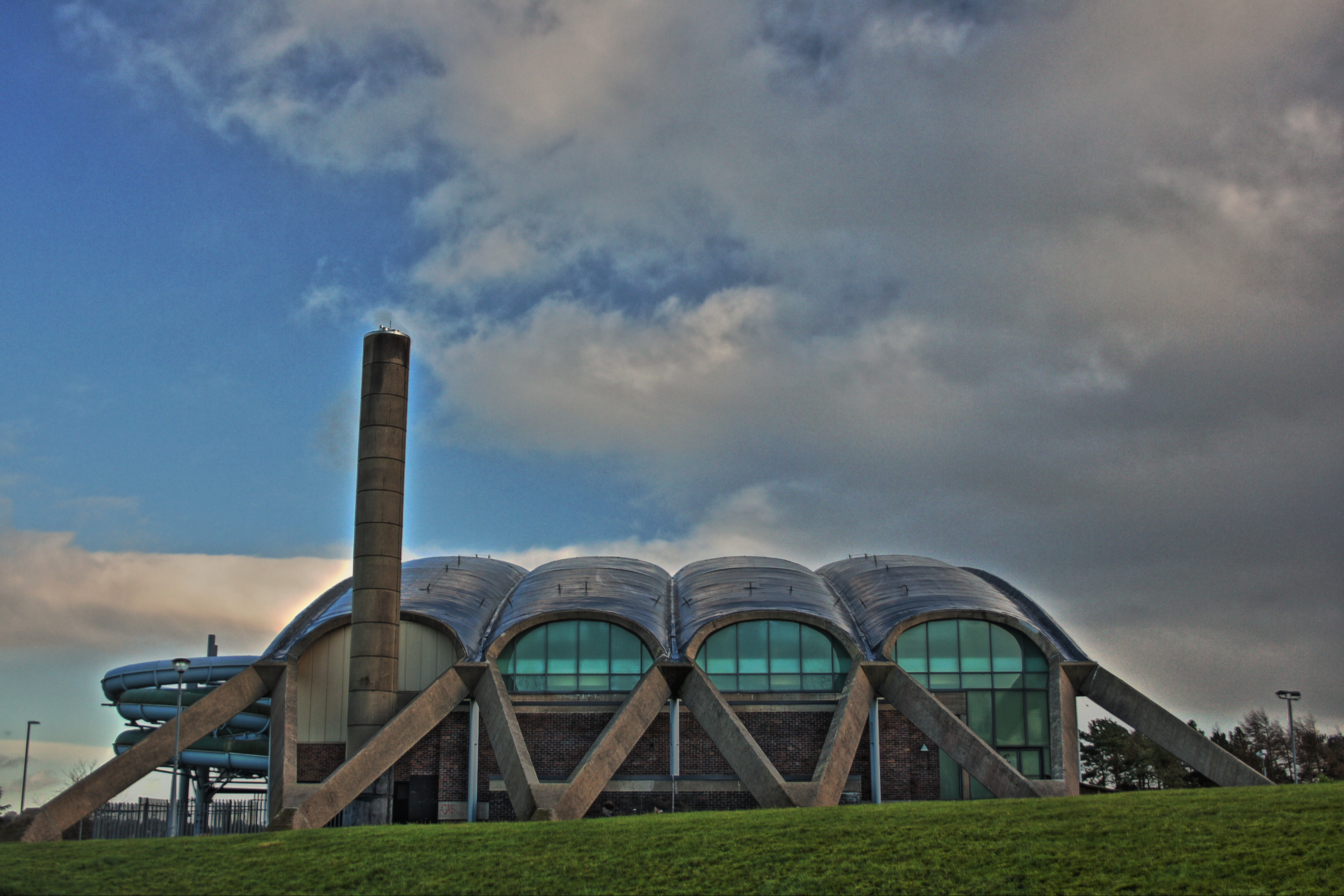 Dollan Baths viewed from West.